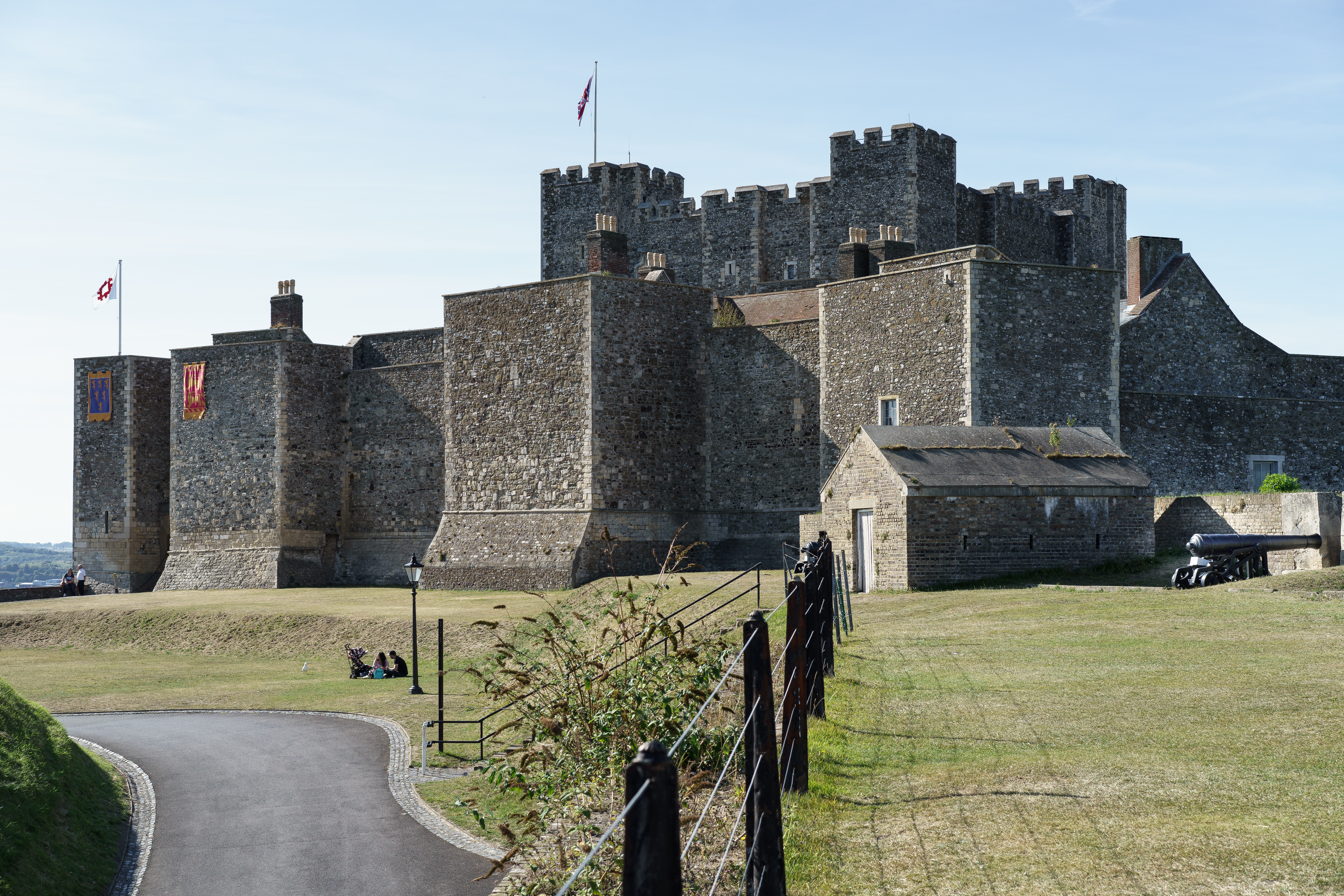 Dover Castle - view from southeast